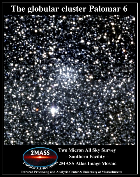 Globular Cluster Palomar 6